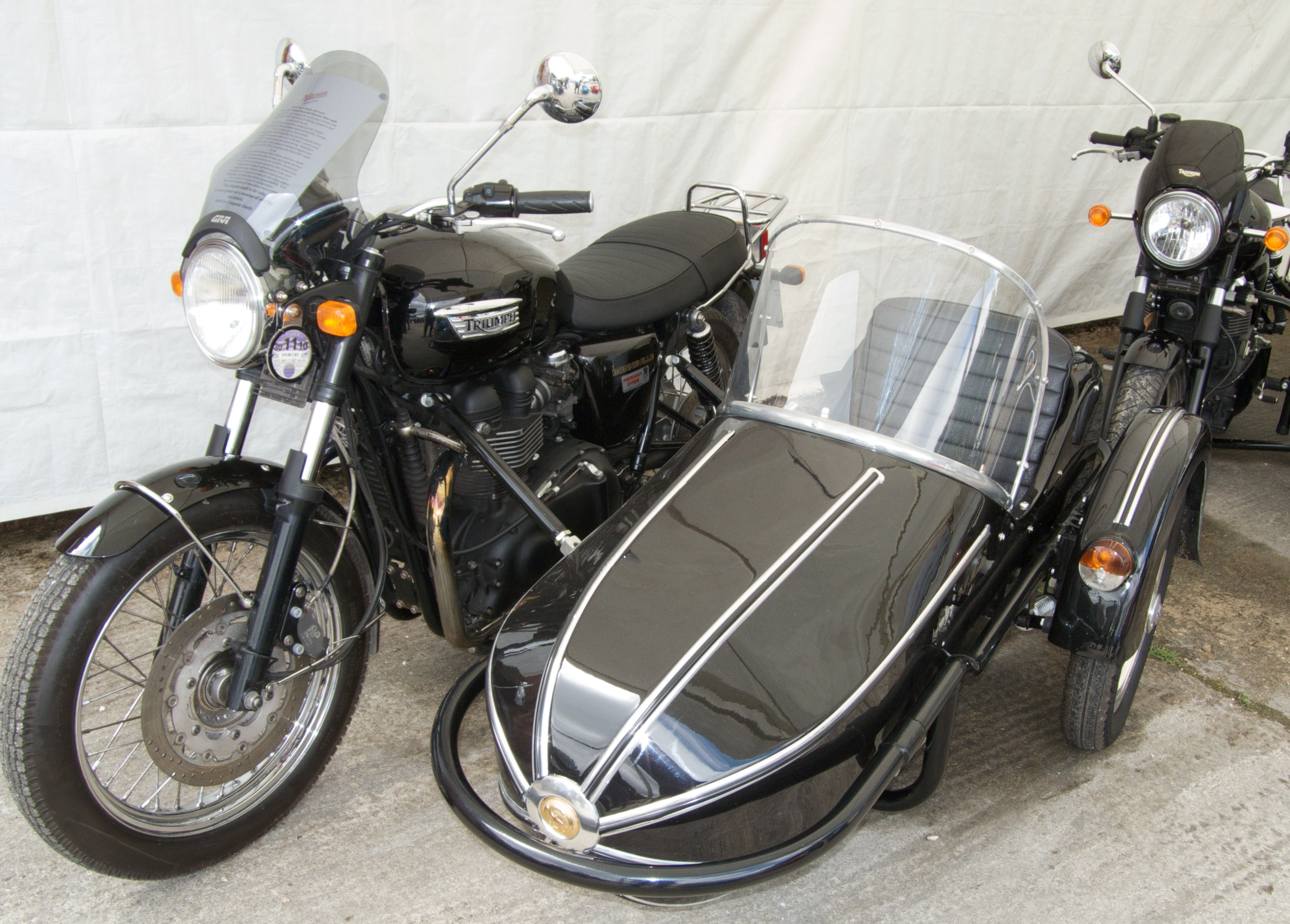 Motorcycle combination: Triumph motorcycle with attached Watsonian Squire sidecar.